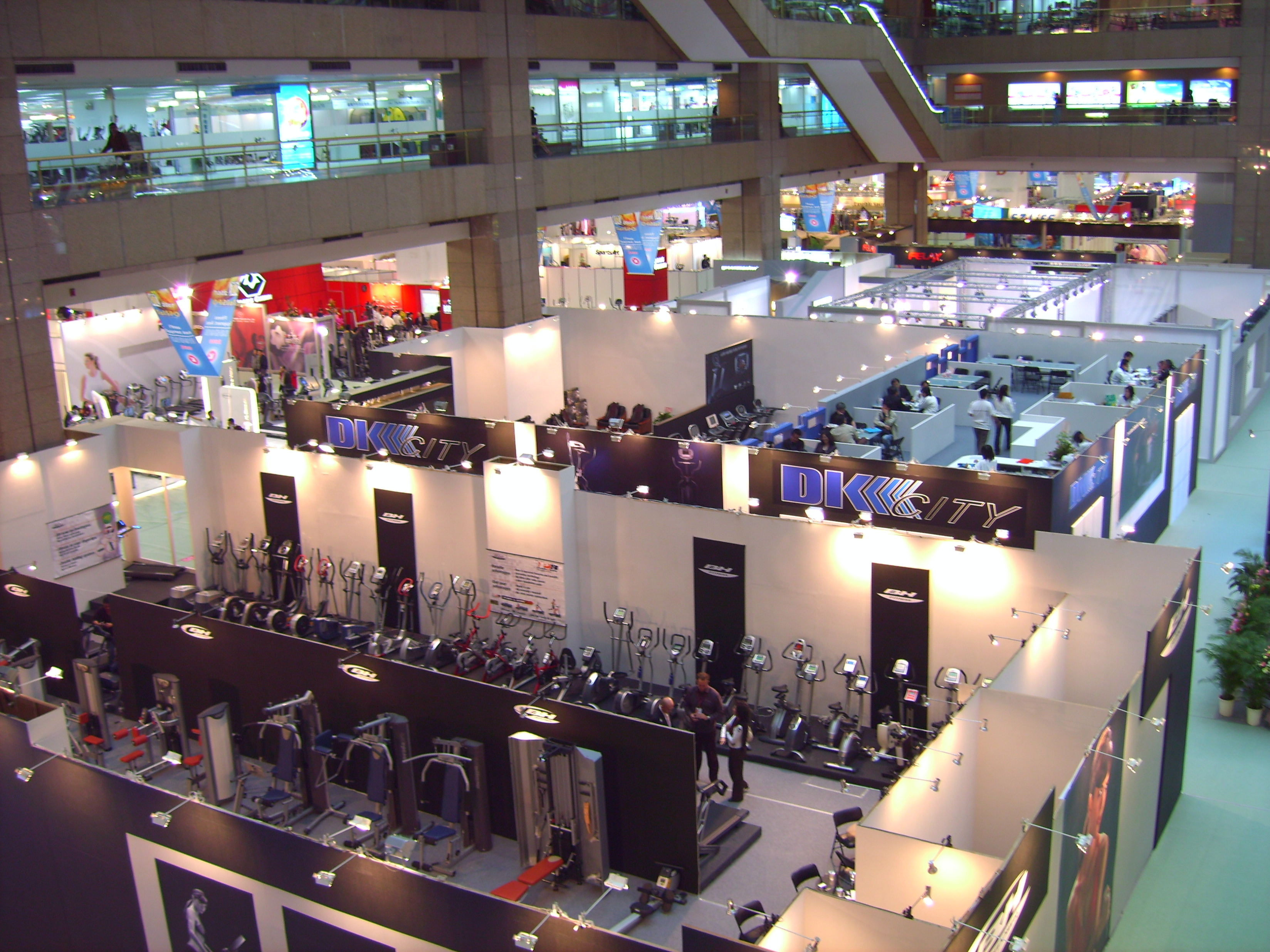 2007 the 34th TaiSPO, fitness equipment area is the most space of the show.